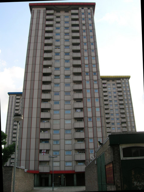 Oxenholme, Ampthill Square, London NW1, with Dalehead (right) and Gillfoot (left) in the background